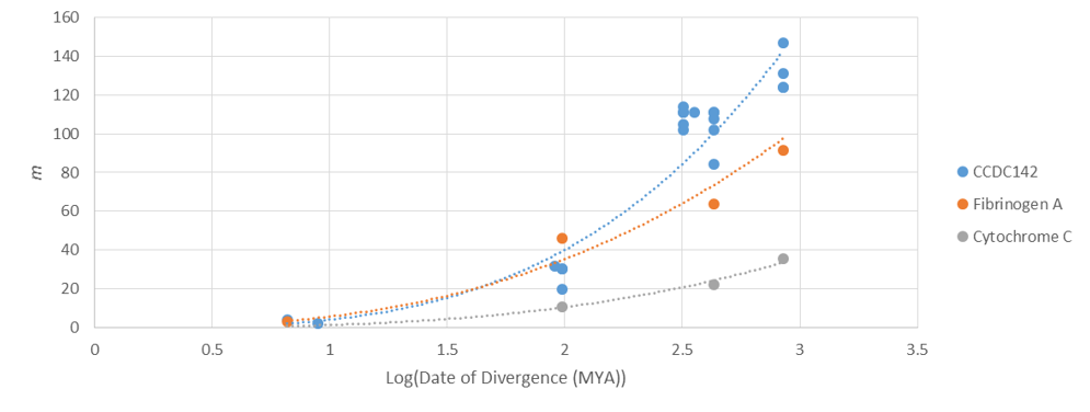 comparative CCDC142 mutation rate